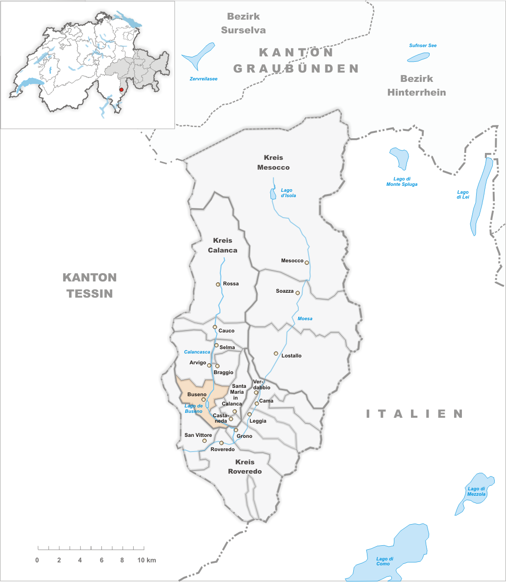 Municipality Buseno